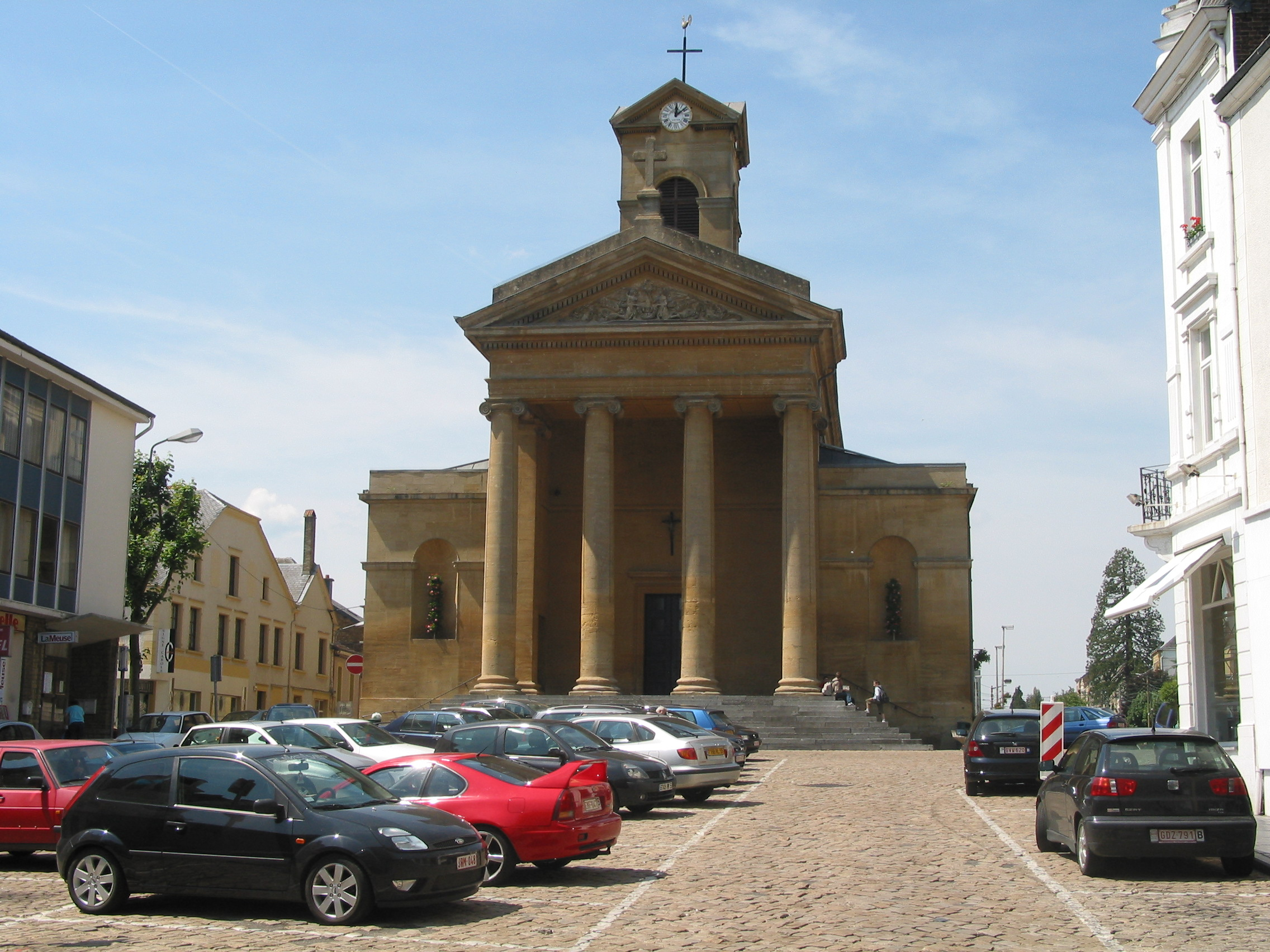 Virton (Belgium), St. Lawrence's church.